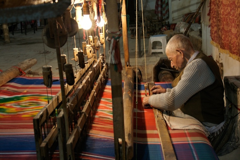 Side view of a man in Yazd weaving a colourful piece of cloth.